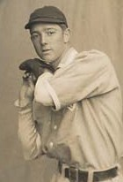 Photograph of Carl Zamloch, circa 1911